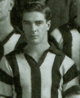 Photograph of Bill Unwin in 1940